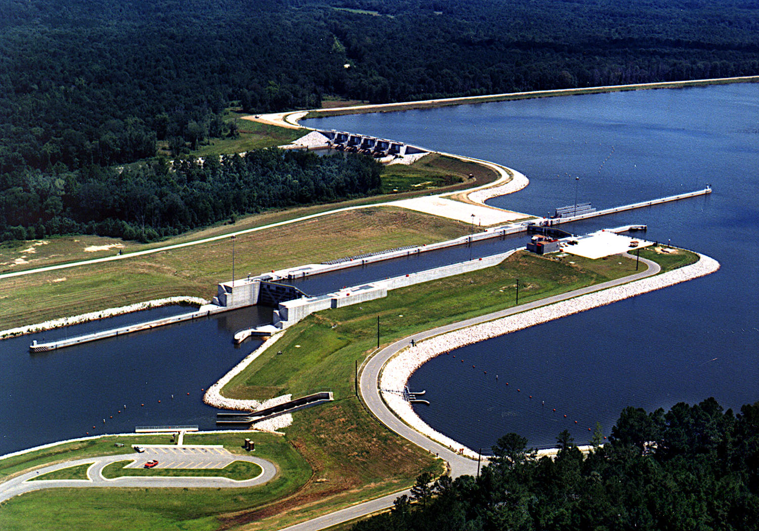 Aerial view of the G. V. Montgomery Lock and Dam on the Tennessee-Tombigbee Waterway. The lock is located in Itawamba County, Mississippi, USA. At this point the border between Itawamba County and Prentiss County crosses the waterway, and the dam (visible at top) is actually located in Prentiss County. The lock and dam are part of the Tennessee-Tombigbee project, constructed by the U.S. Army Corps of Engineers for barge navigation between the Tennessee River and the Gulf of Mexico. View is to the north. Coordinates: 34°27′47.06″N 88°21′53.5″W / 34.4630722°N 88.364861°W